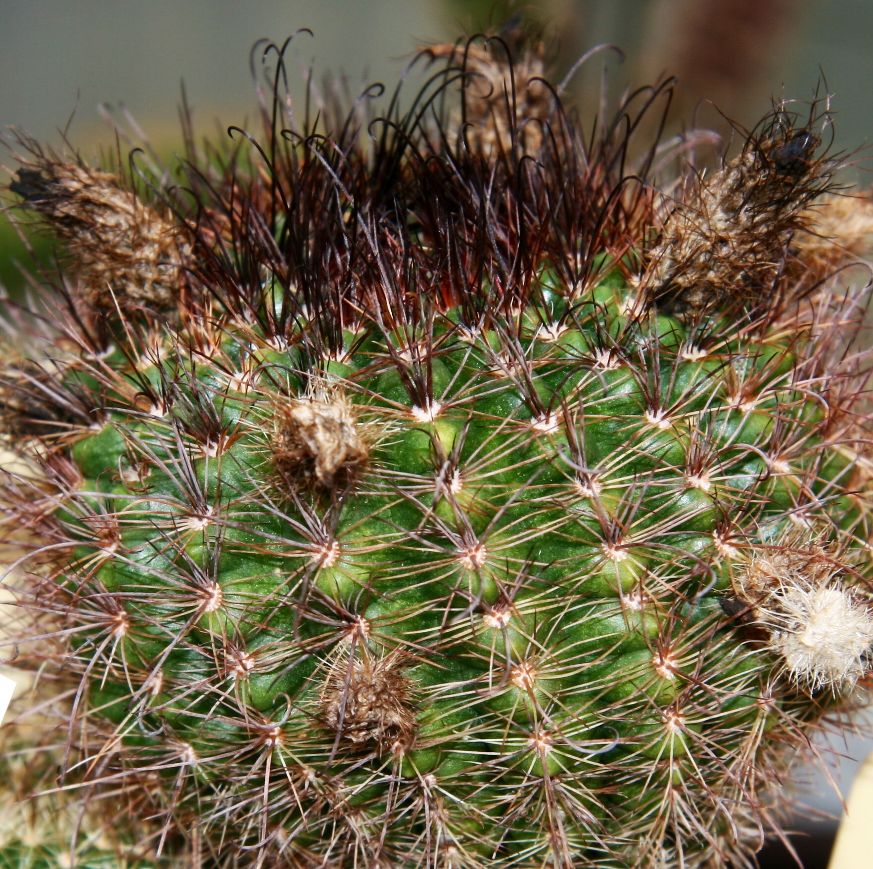 plant from type locality, Rio Grande deo Sul, Brasil